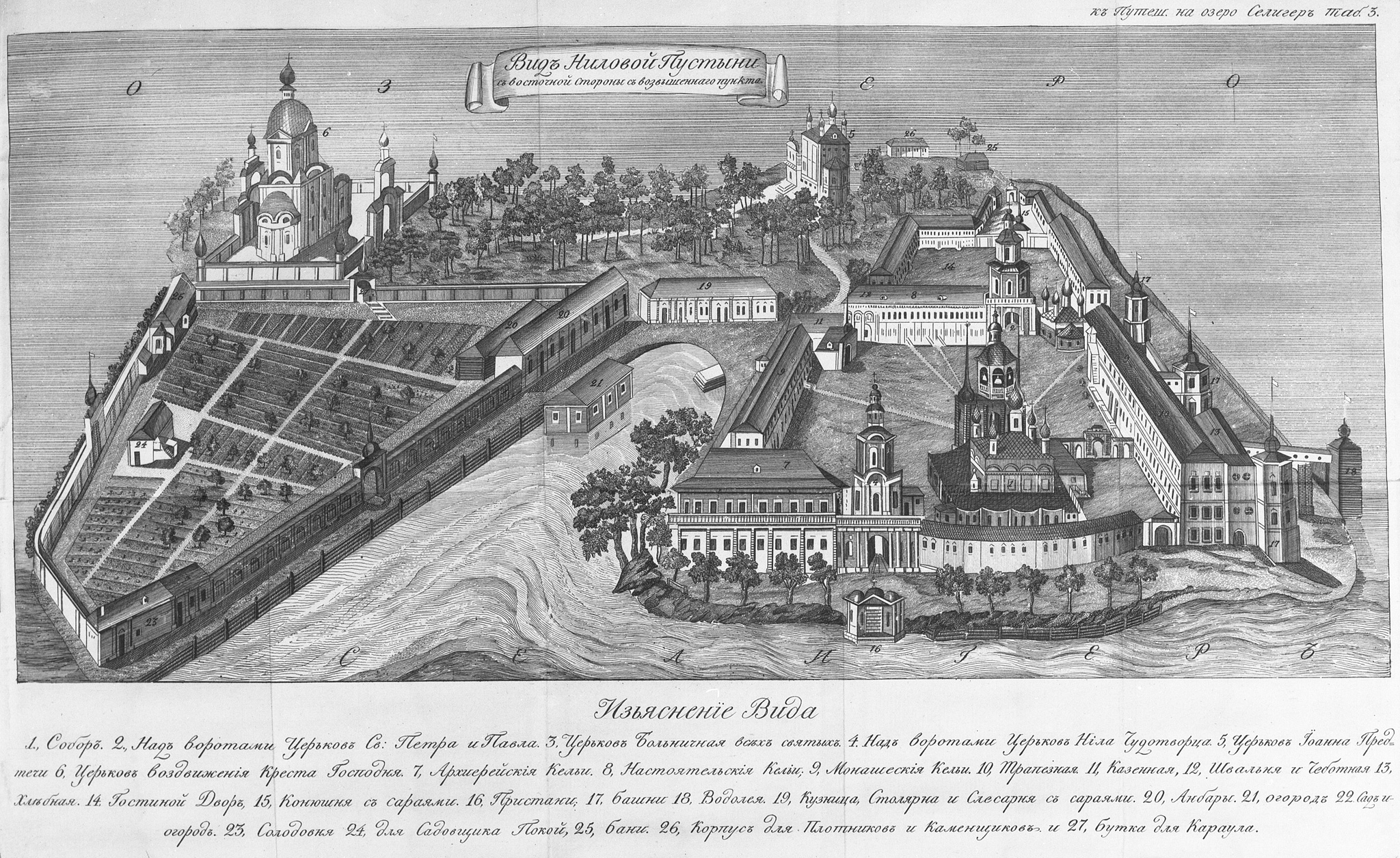 Nil monastery plan at the beginning of the XIX century